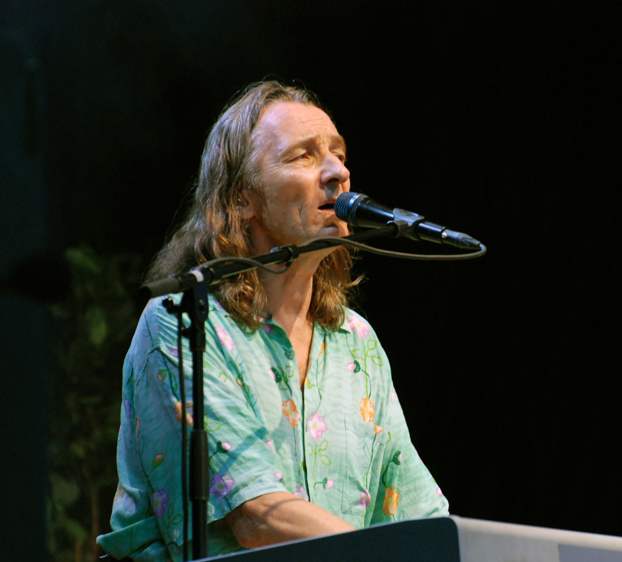 Roger Hodgson live at Hamar Music Festival 2009.